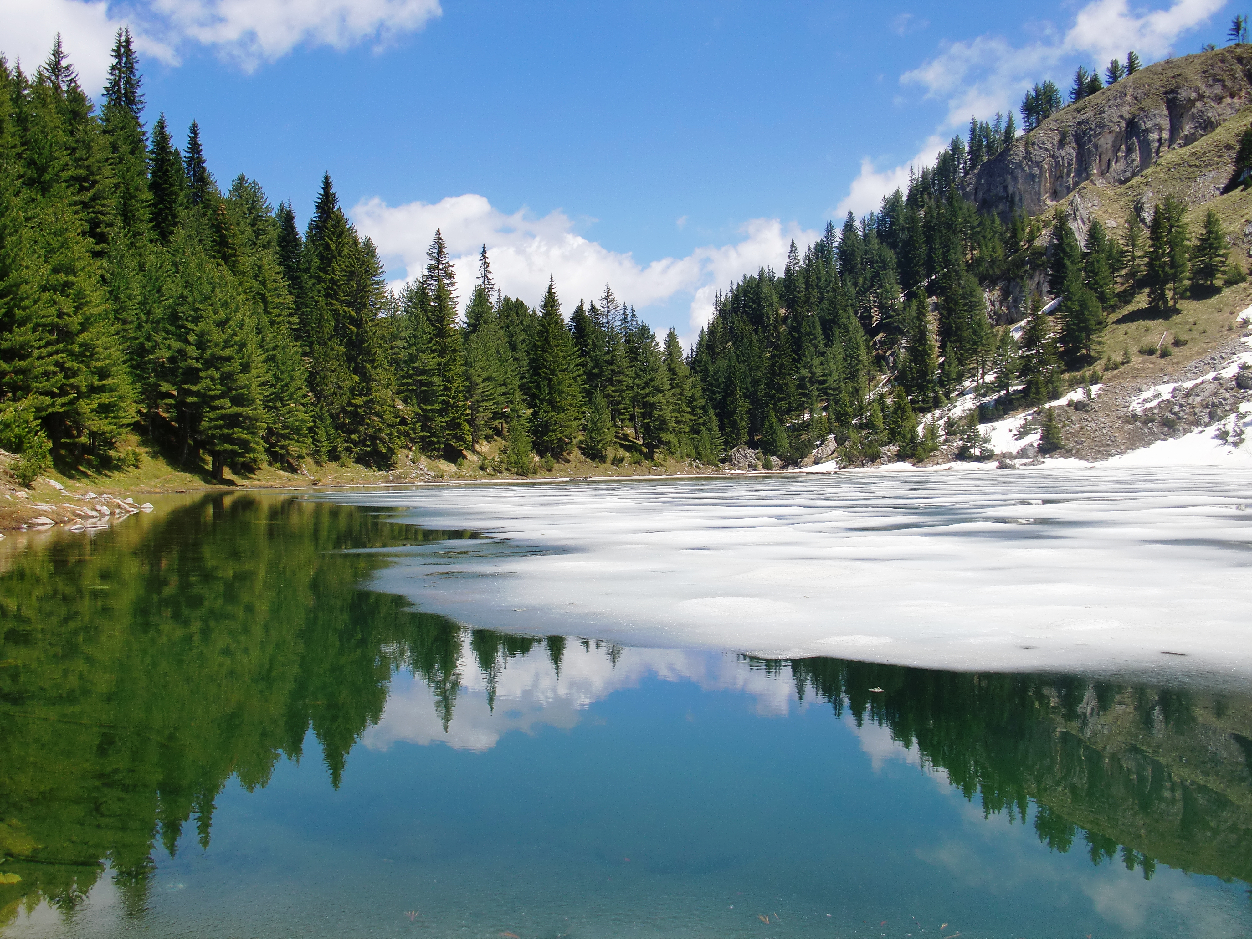 Rugova - Kosovo